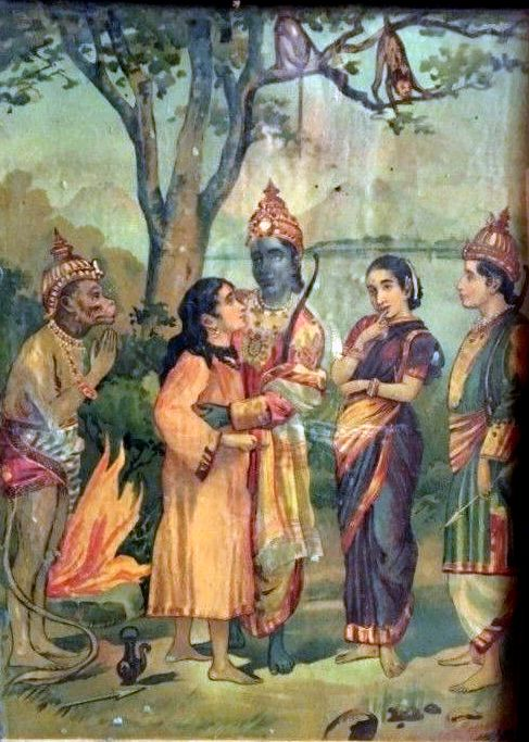 Antique Ravi Varma Hindu Divine Ritual Lord Shreeram Nandigram Enter Litho Print